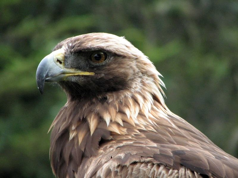 A Golden Eagle named Sierra, a one winged Golden Eagle, at San Francisco Zoo, California, USA.